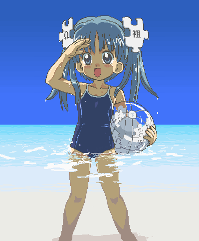 Wikipe-tan in the seaside.